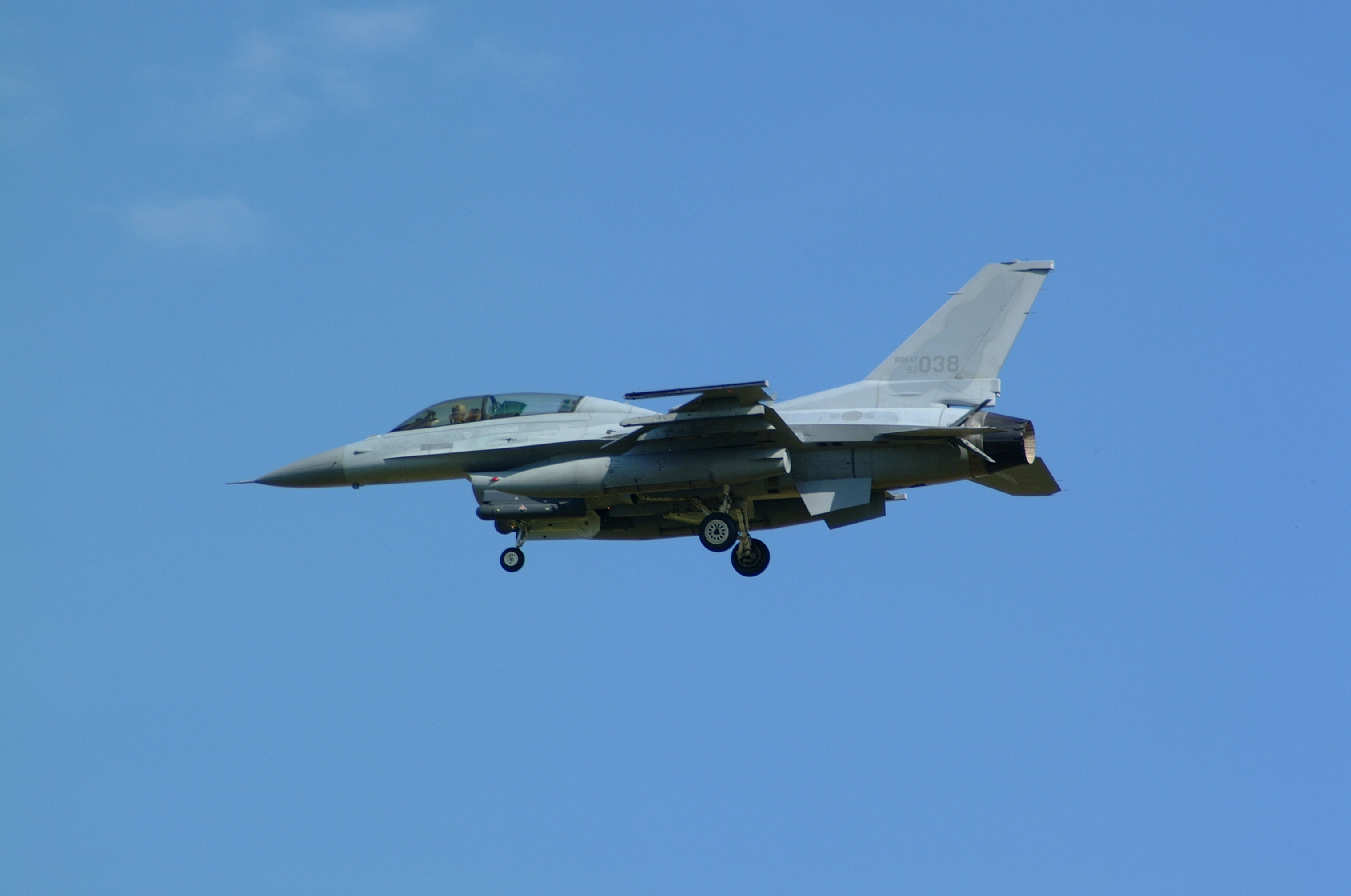 92-038 a KF-16D-52 of 20 FW RoKAF landing at Seosan AB